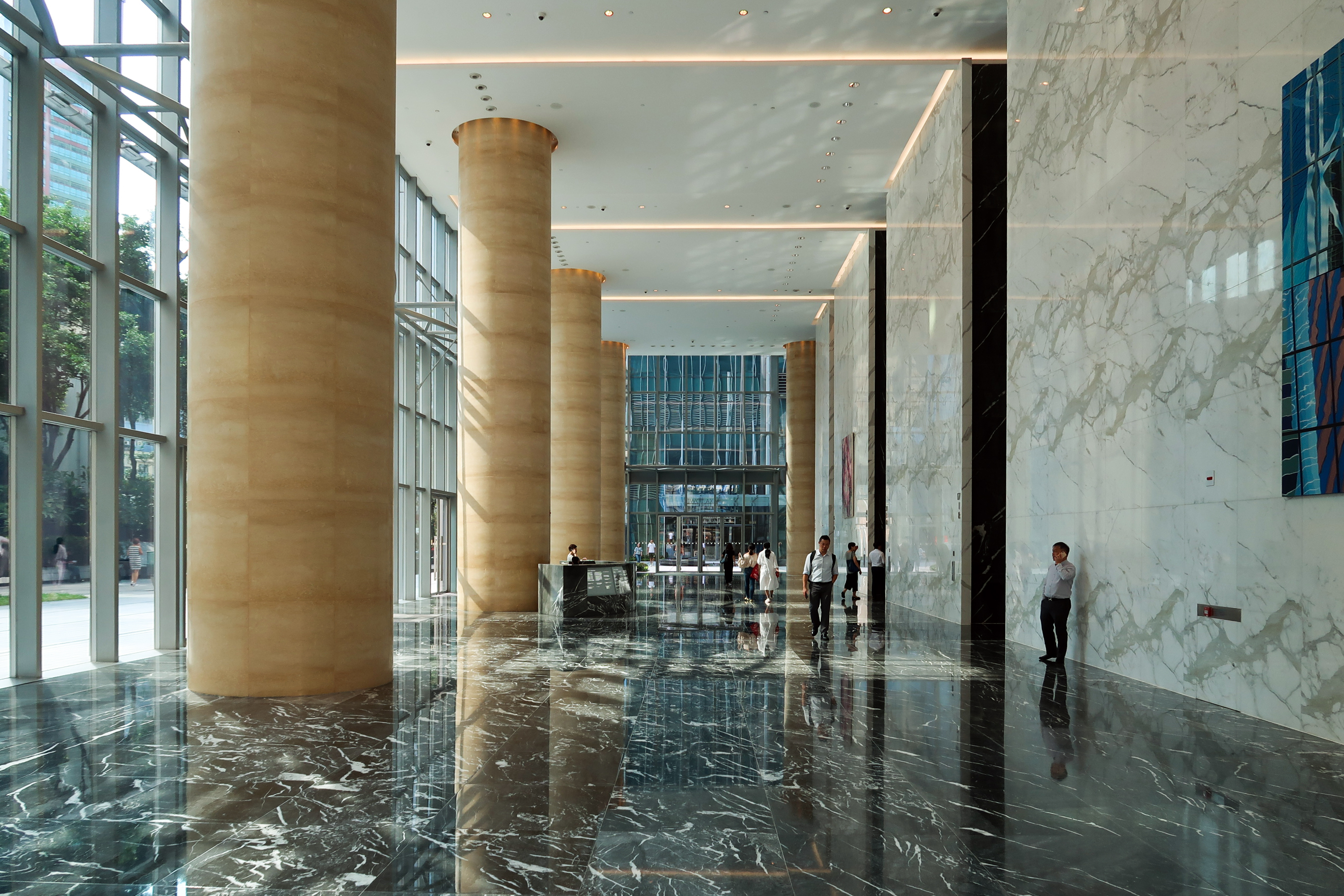 Landmark East AXA Tower Office lobby